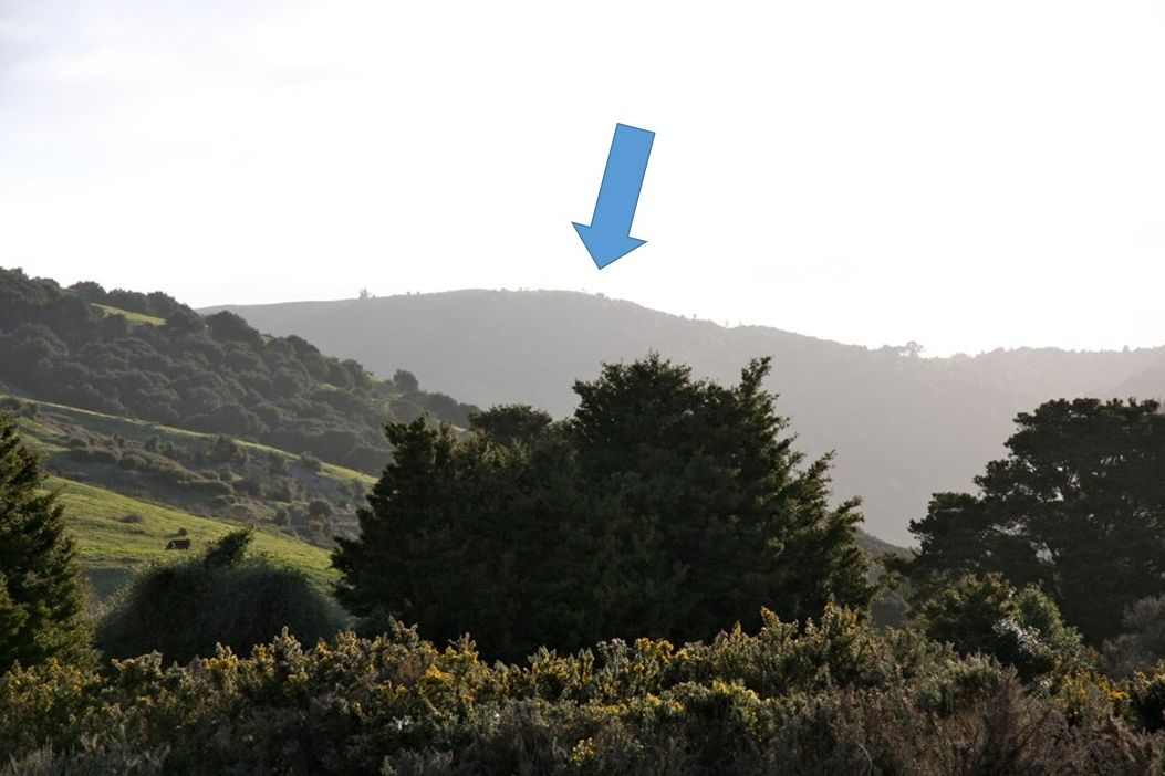 Pointing out where the hill itself is.